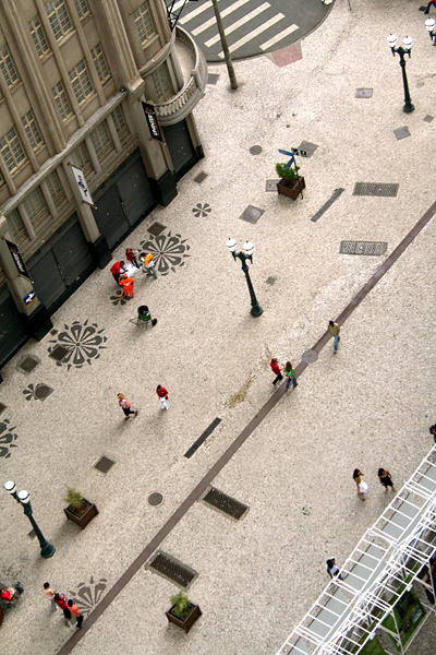 Curitiba, View of XV de Novembro St.